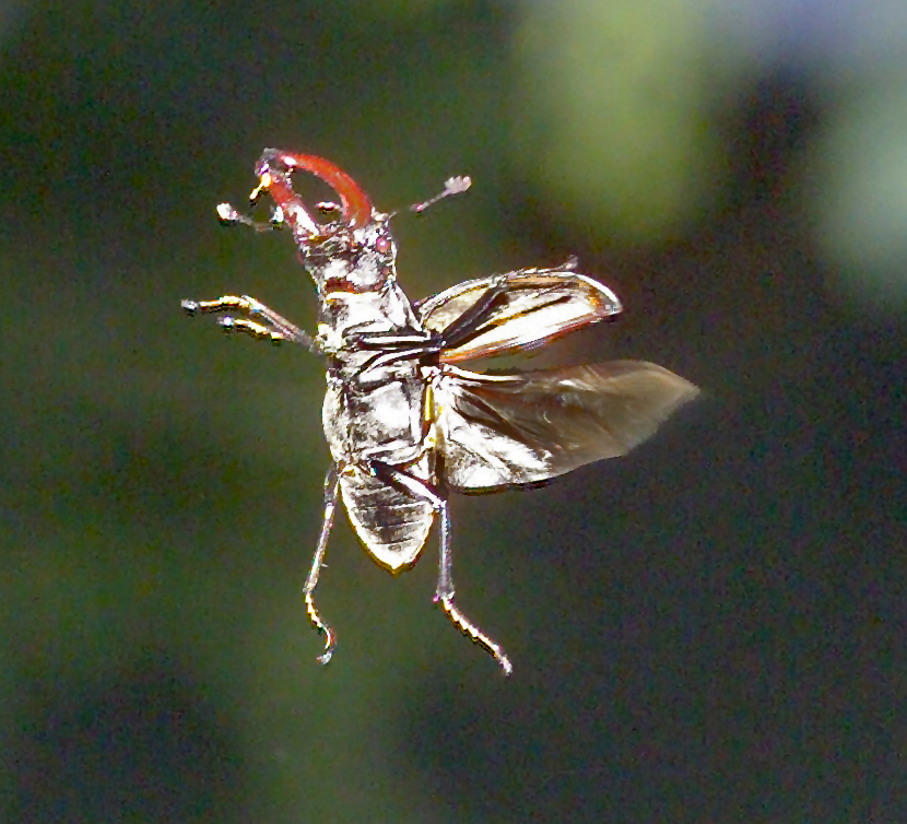 Flying Stag Beetle (Lucanus)